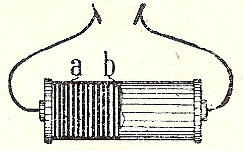 Zamboni dry pile. a) Tin-foil. b) Paper disk coated with dioxide of manganese.